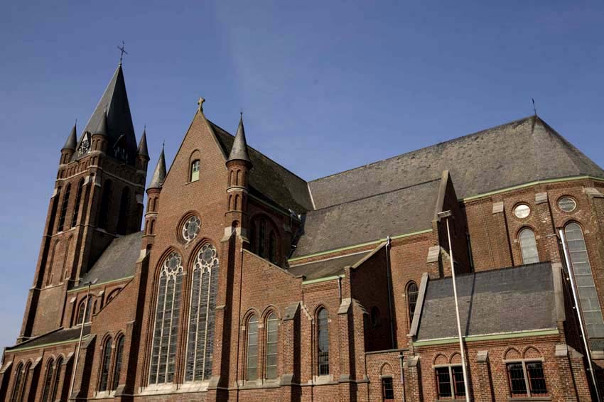 church, neo-gothic